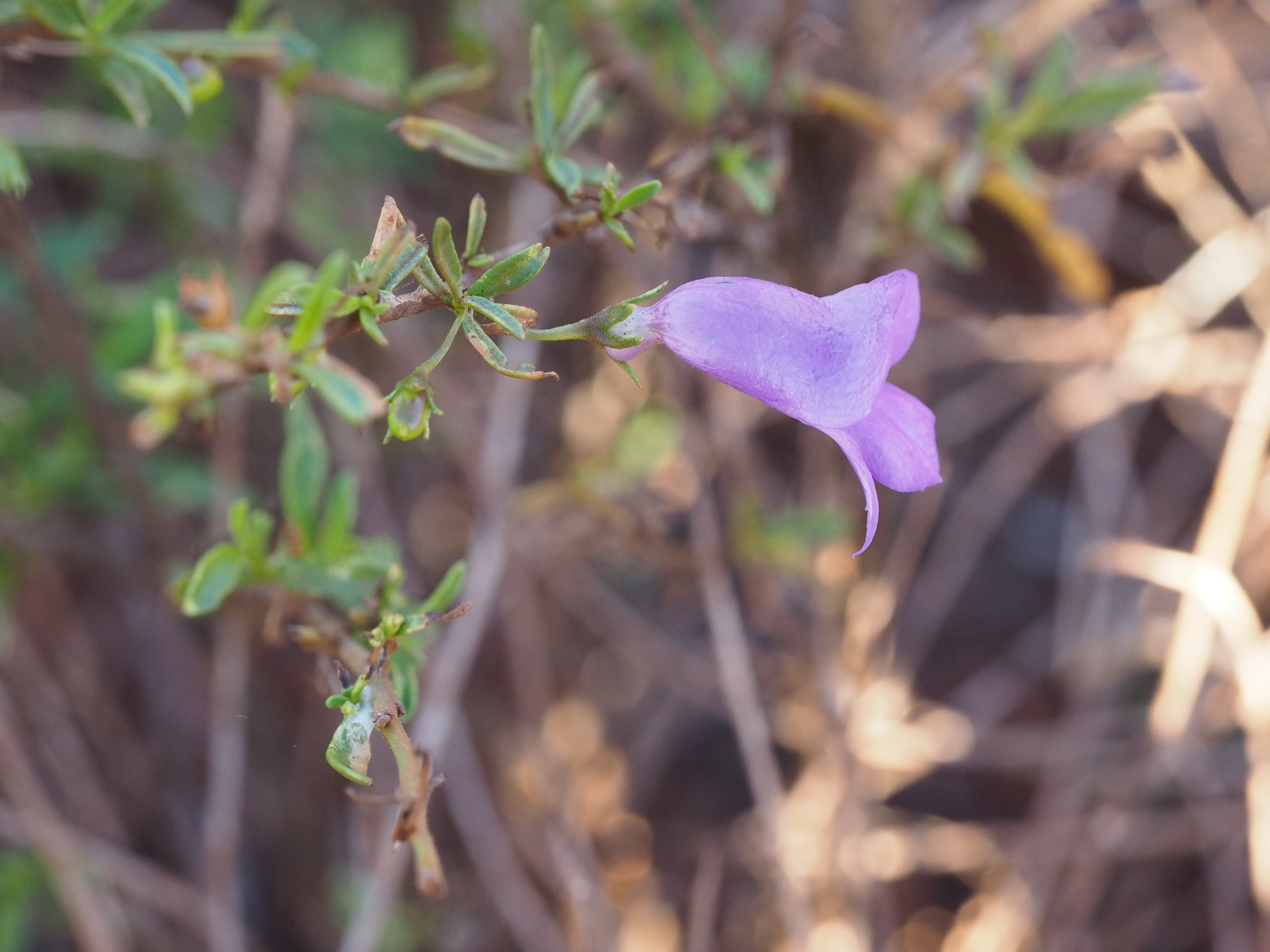 Eremophila lanceolata growing on the "Prairie Downs" track